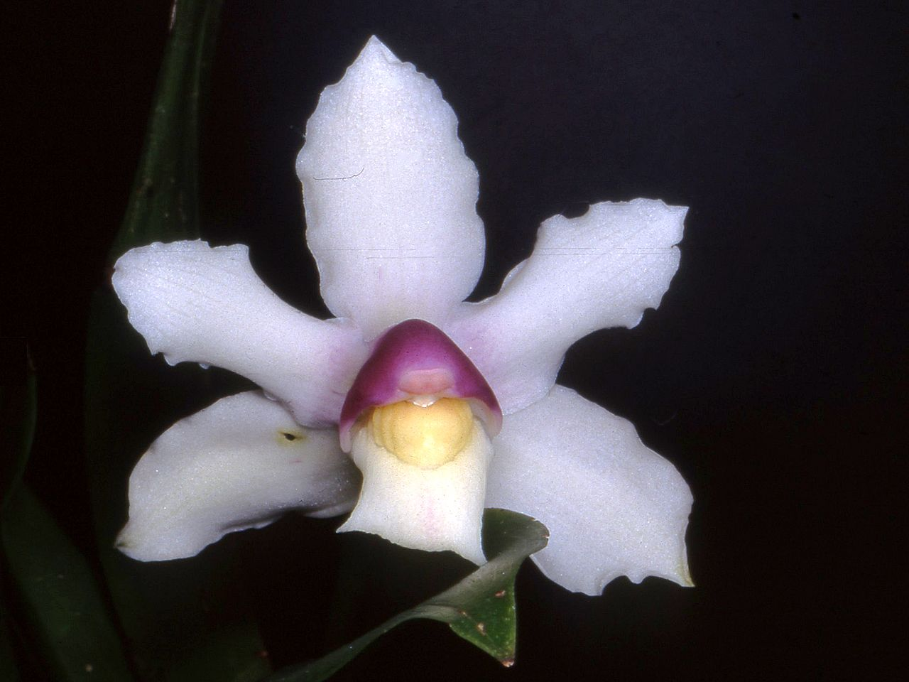 Bollea hirtzii